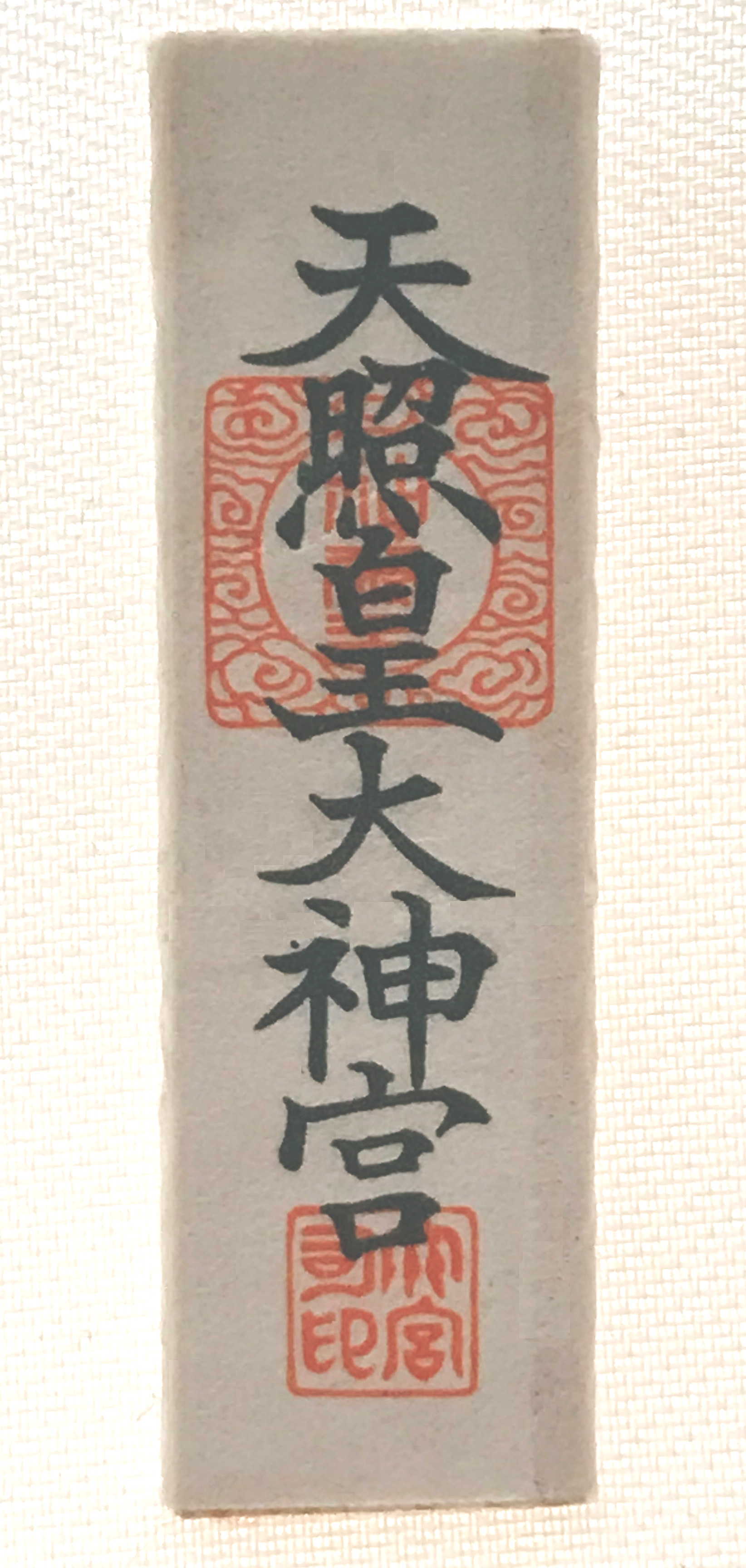 Mamori harai of Ise Grand Shrin (Naikū). Purpose included in omamori.